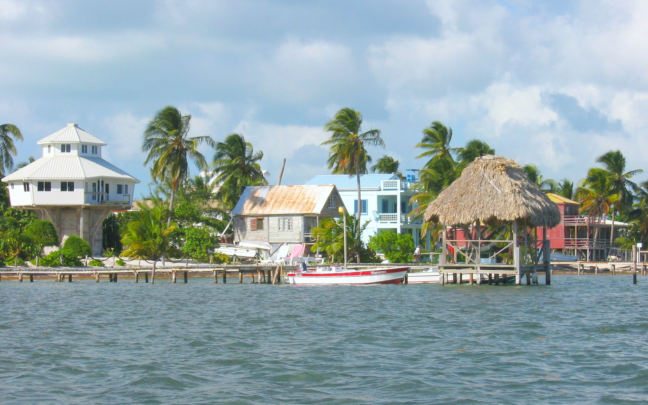 Caye Caulker, Belize